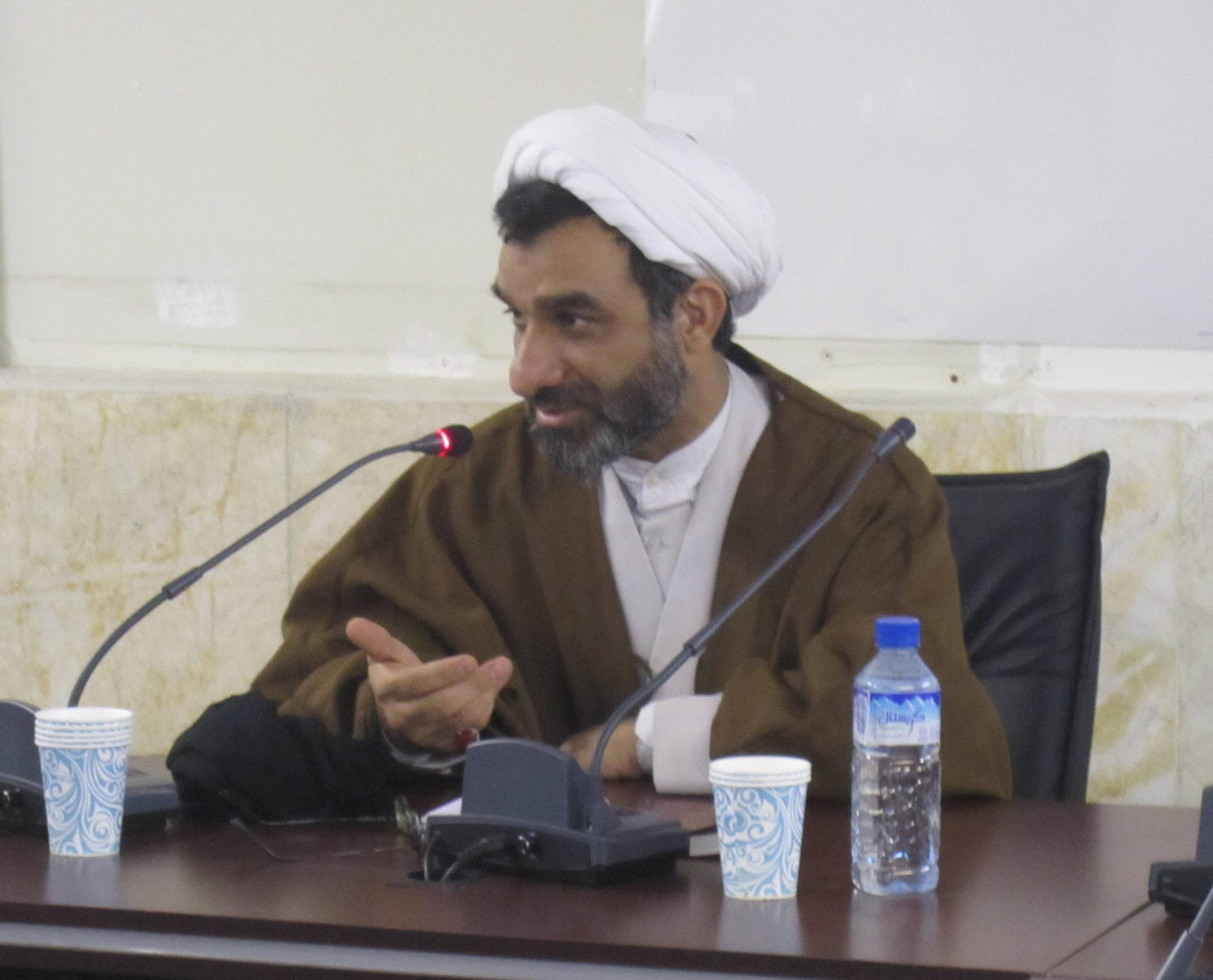 عبدالحسین خسروپناه، همایش فلسفه دین معاصر، پژوهشگاه علوم انسانی و مطالعات فرهنگی، ۳ و ۴ دی ۱۳۹۱